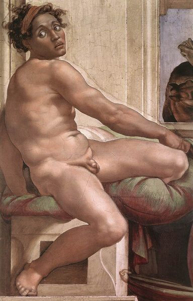 Michelangelo 'ignudo' from the Sistine Chapel ceiling.